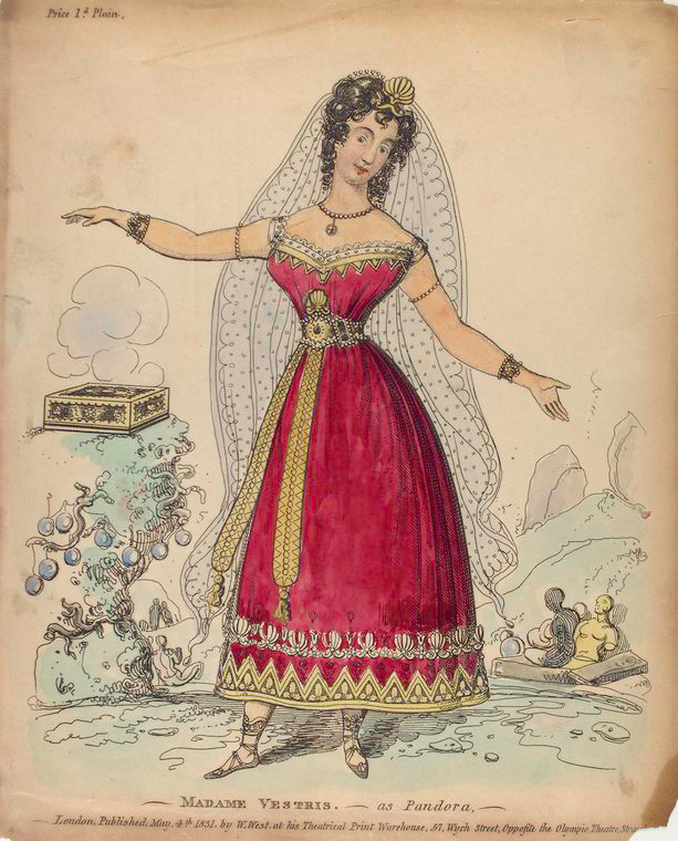 Lucia Elisabeth Vestris (née Bartolozzi) as Pandora in Olympic Revels, or Prometheus and Pandora (1831), written by James Planché and Charles Dance, music by John Barnett (etching, hand-coloured)